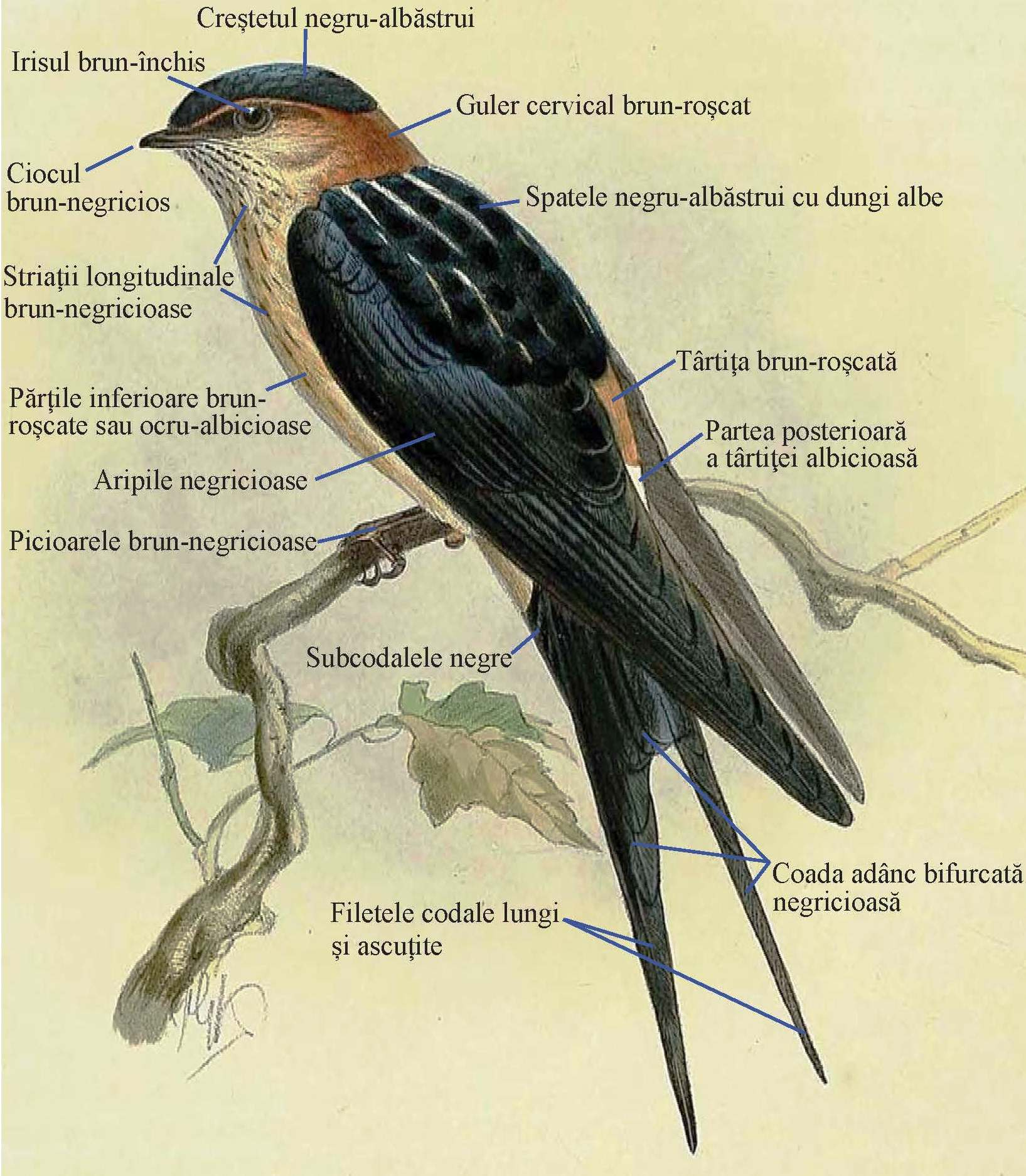 Cecropis daurica (rufula) Dresser